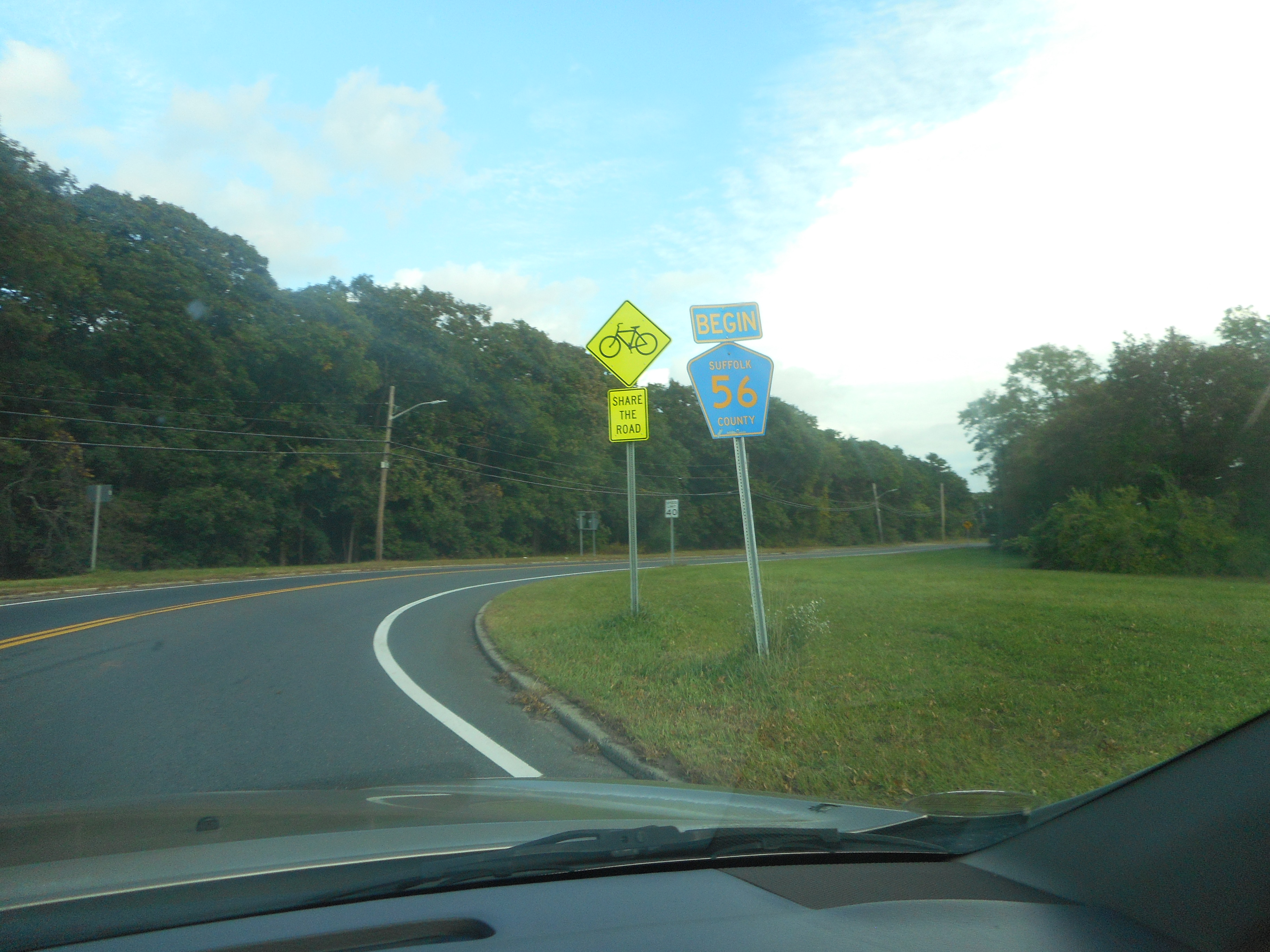 Eastbound at the beginning of Suffolk County Road 56 on Victory Avenue in the hamlet of Brookhaven, New York. This road is a frontage road along the westbound lanes of New York State Route 27 (Sunrise Highway), but only has a county route designation between Suffolk CR 16 (Exits 57 W-E) and Suffolk CR 46 (Exits 58 N-S). Around this curve is the first westbound off-ramp from NY 27 to this road but primarily to Suffolk CRs 16 and 21, and later it will encounter the southern border of Southaven County Park in South Haven.